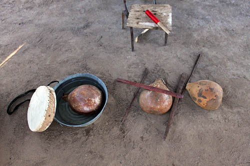 Instrumentos empleados en la Danza del Venado de la etnias yaqui y mayo